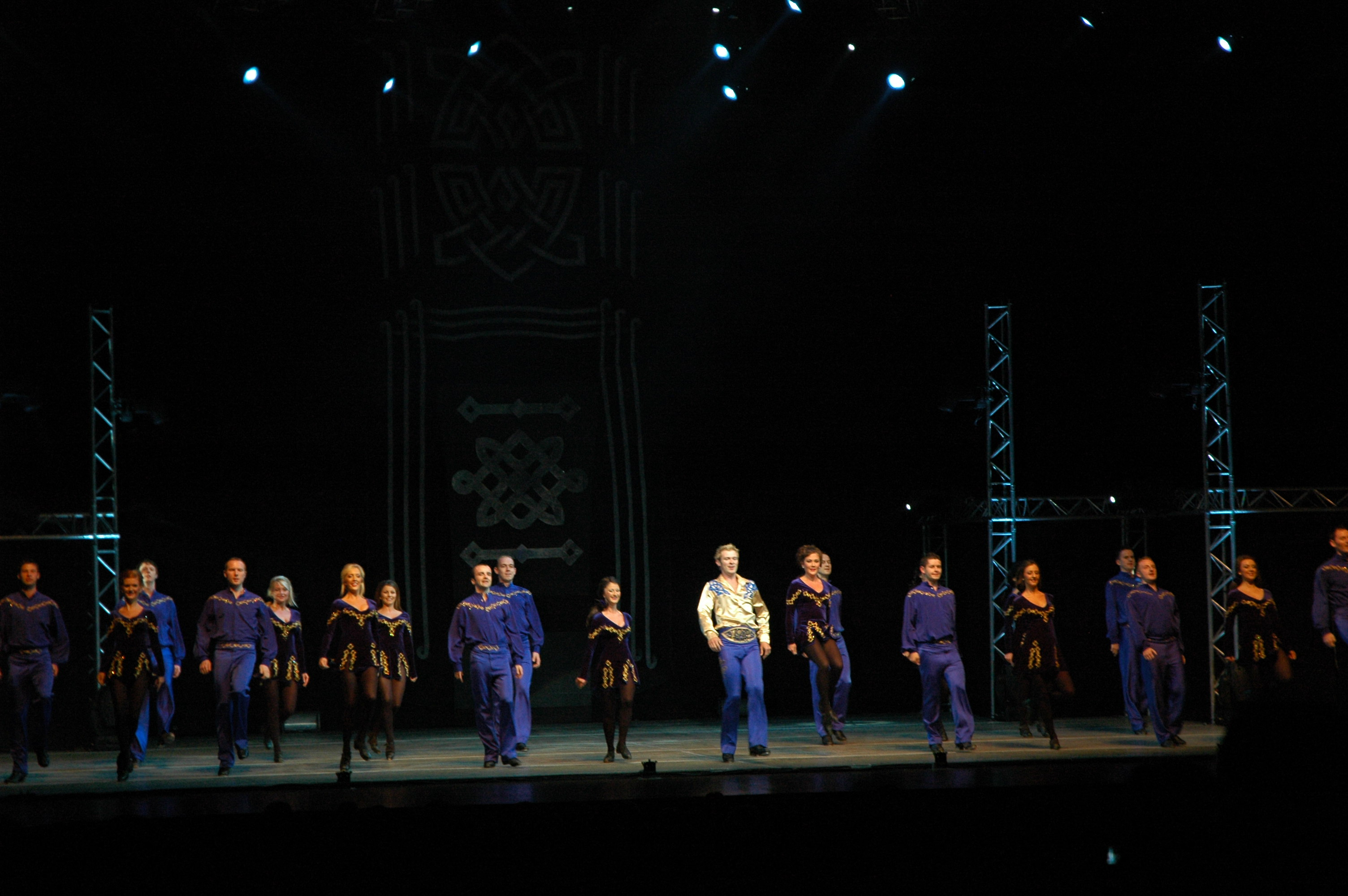 "Lord of the Dance" show of Michael Flatley, part 1 "Cry Of The Celts" with "Lord of the Dance" and "The Clan".